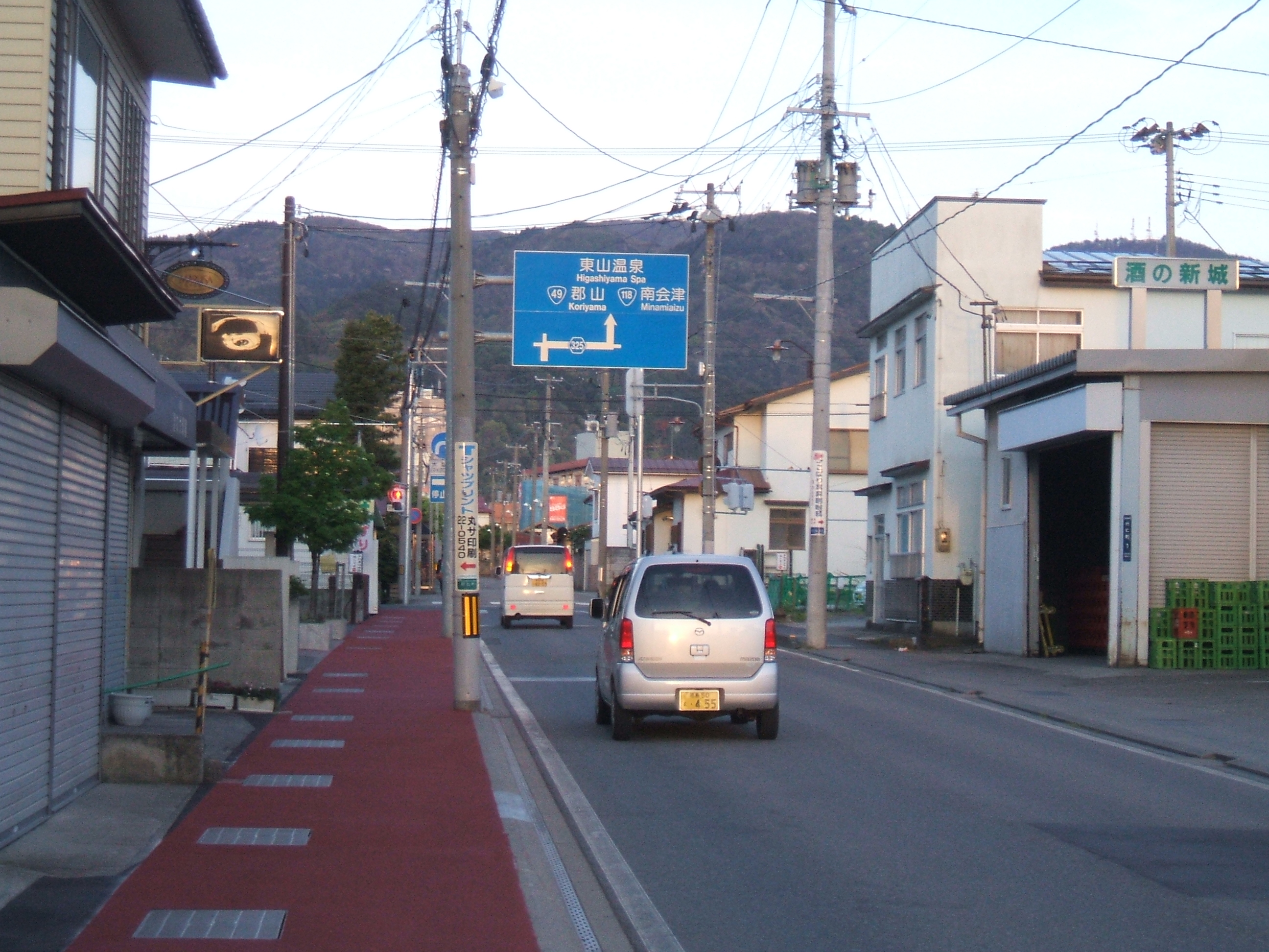 This is landscape of Gyouninmachi South, Aizuwakamatsu, Fukushima.